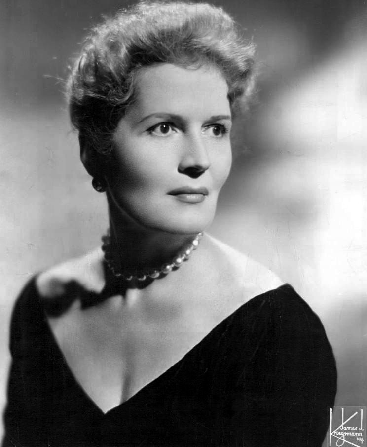 Publicity photo of actress Edith Atwater.